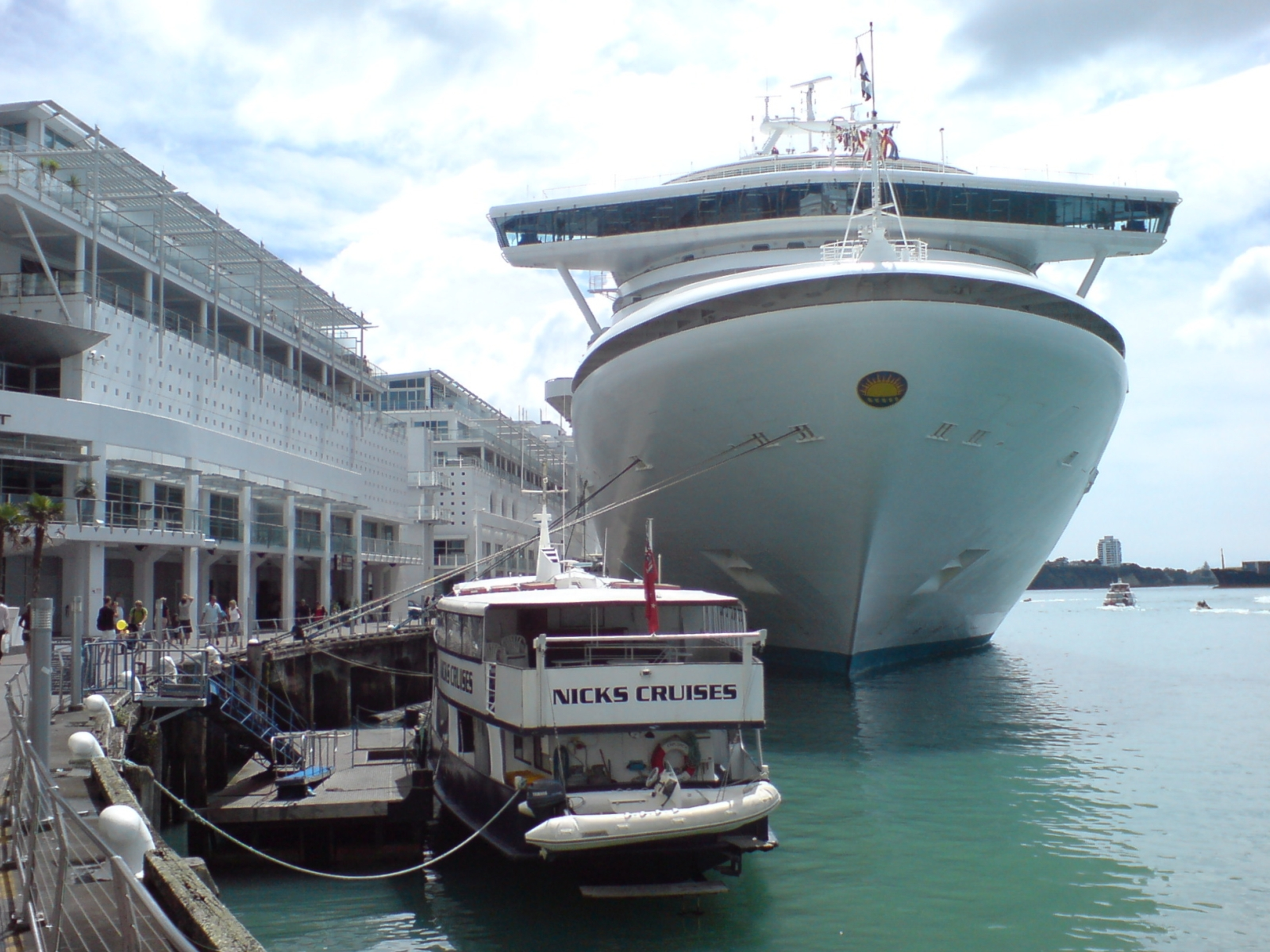 The Sapphire Princess berthed at the Princes Wharf (close, but not quite the same!) in Auckland City, New Zealand.